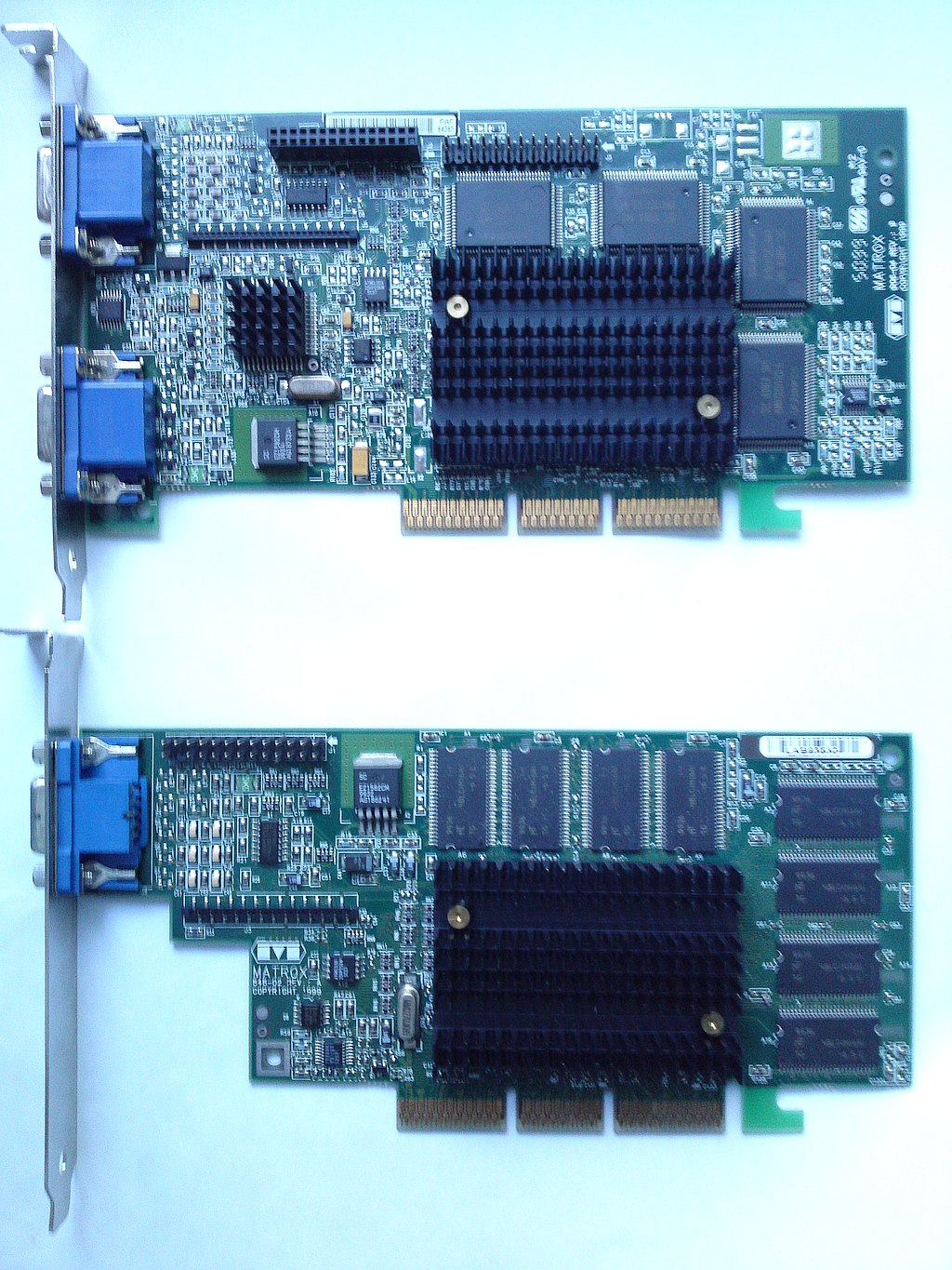 Matrox Millennium G400 DualHead 32Мб и Matrox G400-SD 16Мб